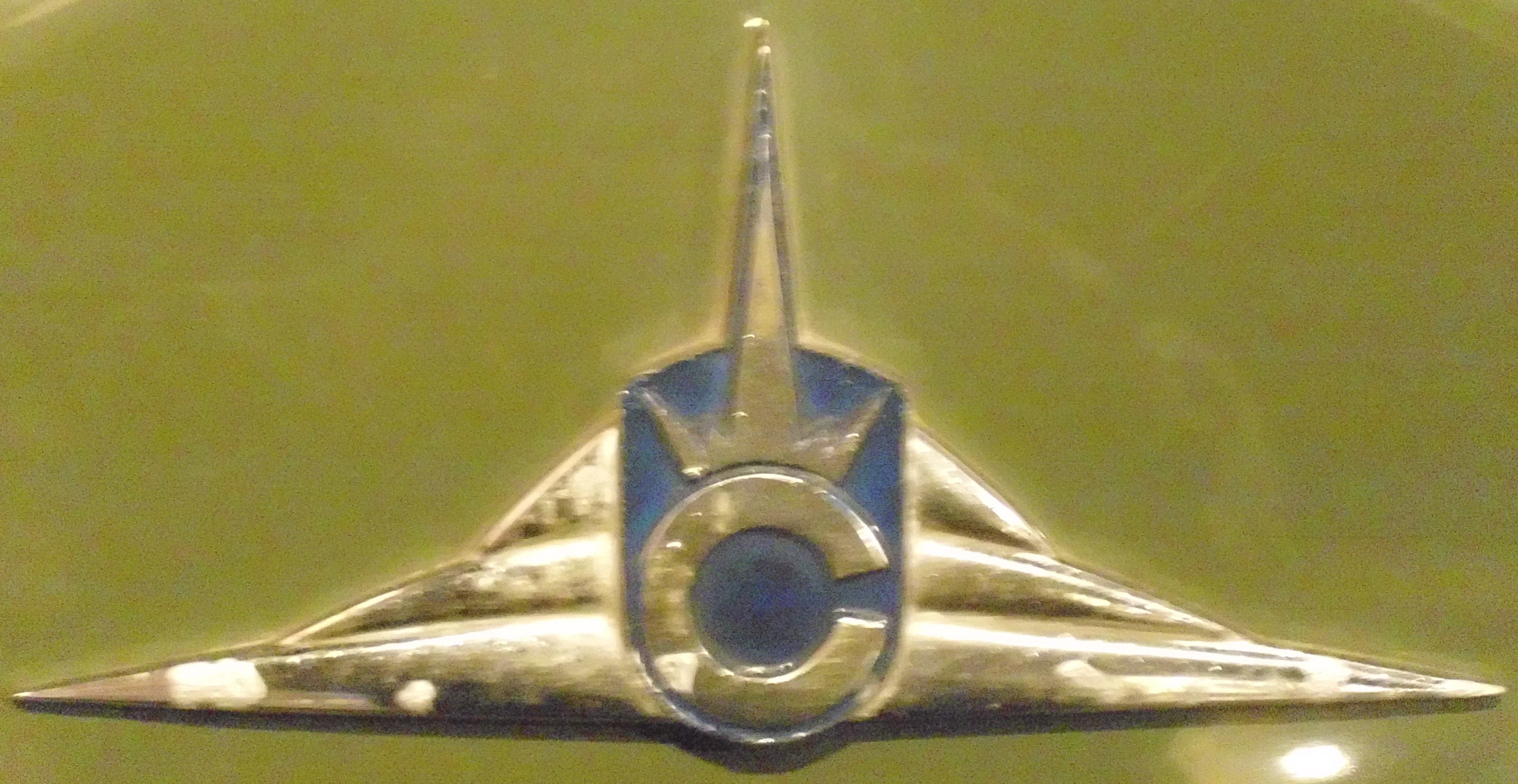 Emblem Champion